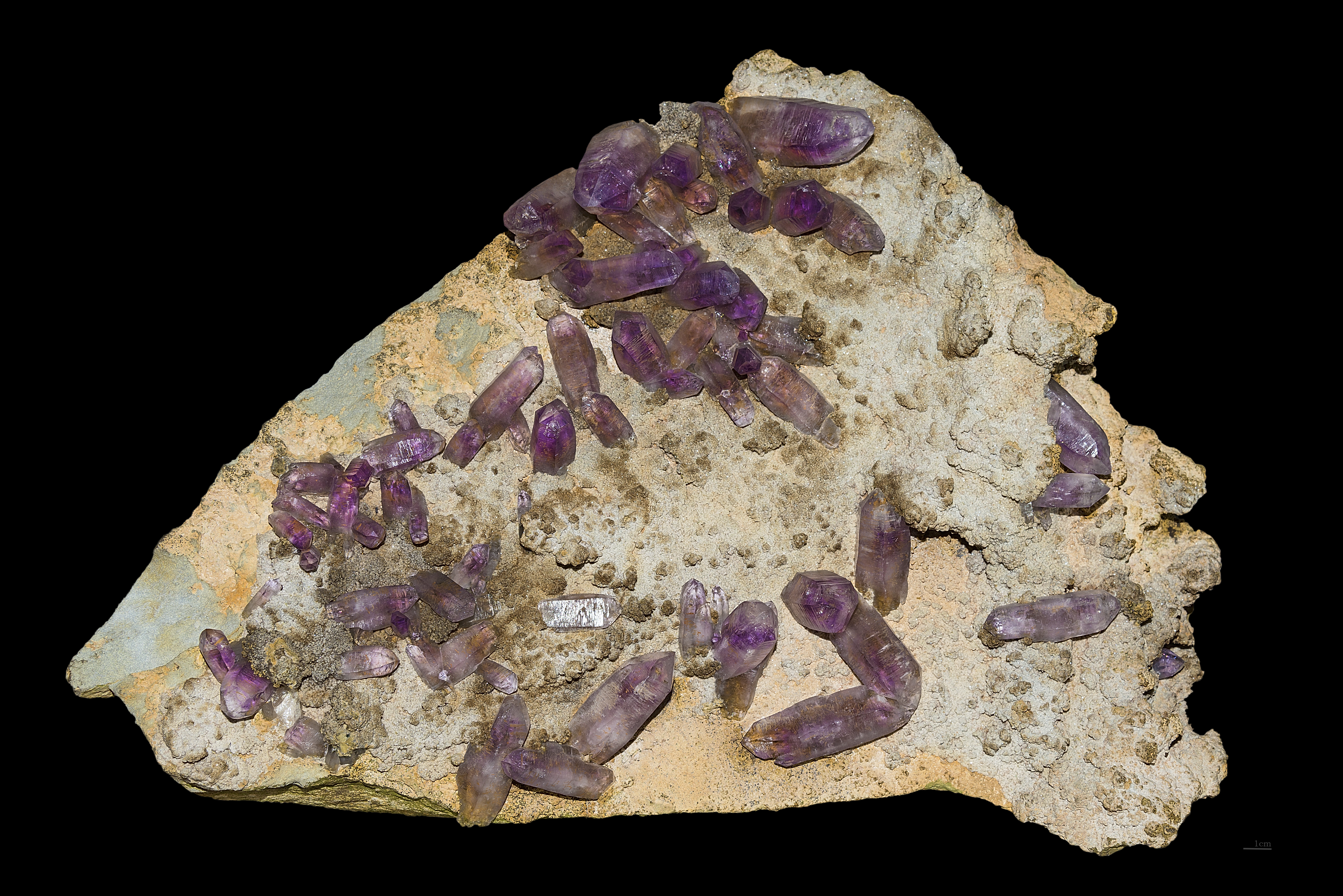 Amethyst Locality : Mun. Las Vigas de Ramírez (Mun. de Profesor Rafael Ramírez), Veracruz, Mexico (39x29x18cm)